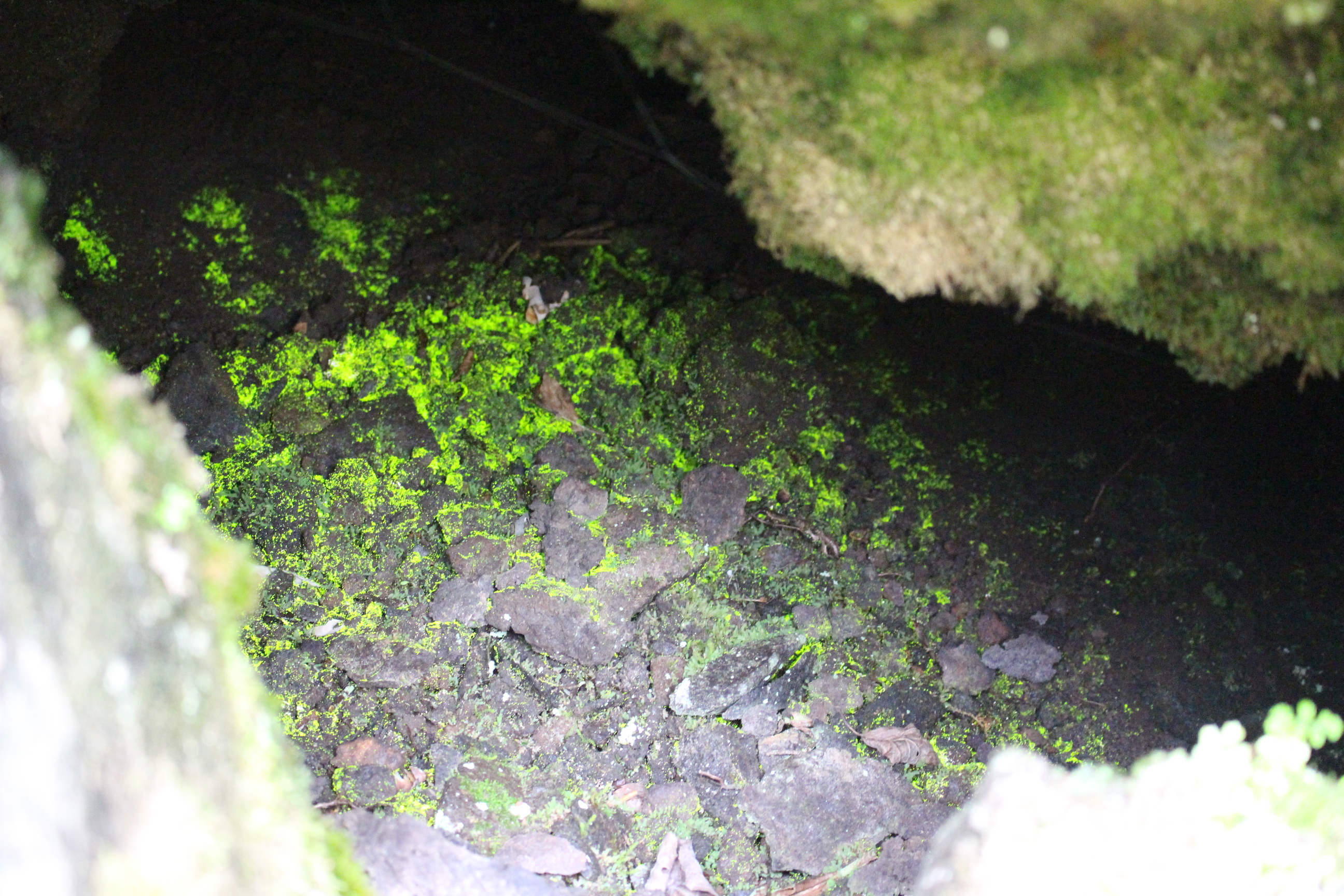 Schistostega